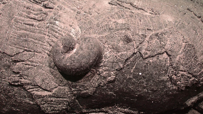 A little extrusion of lava from the side of a large pillow structure. NOAA Okeanos Explorer Program, Galapagos Rift Expedition. 15 July 2011.